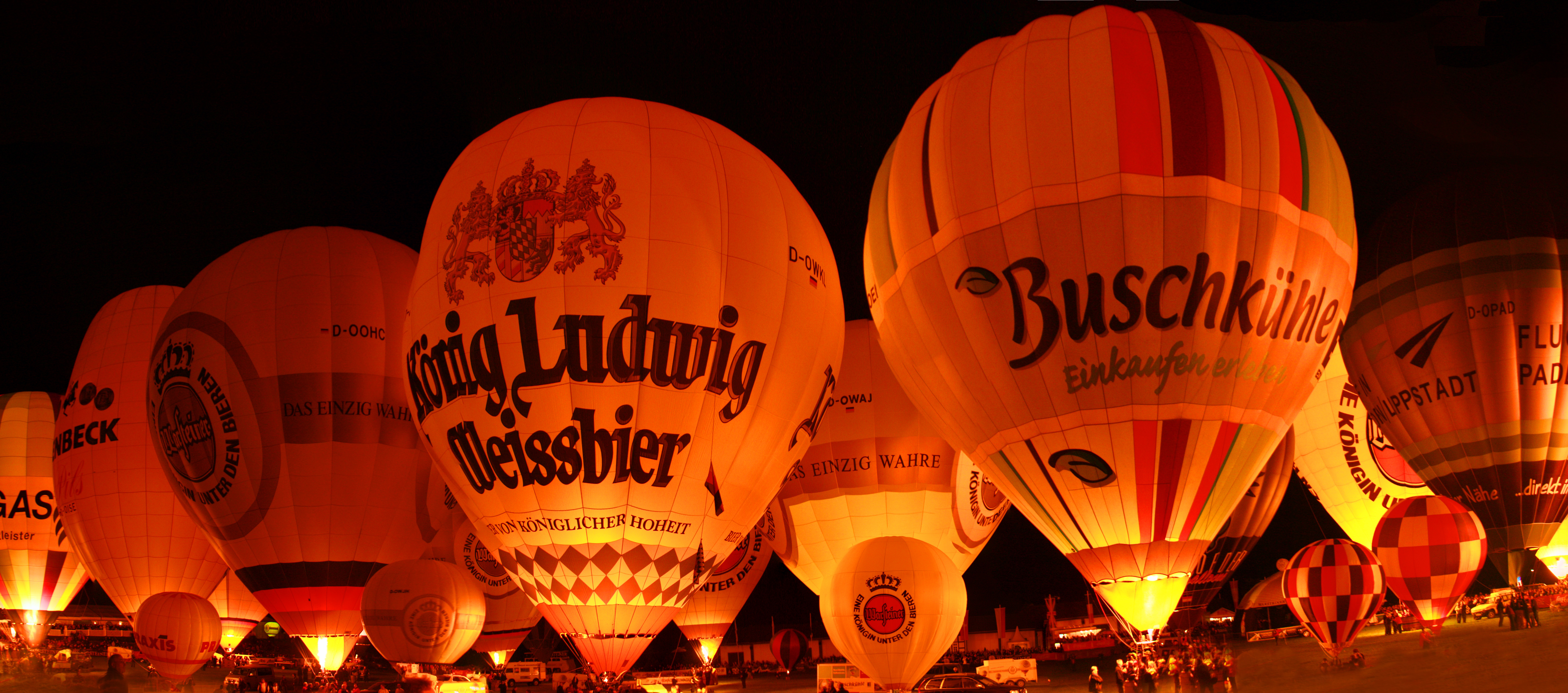 Montgolfiade in Warstein in September 2010 - Night Glowing